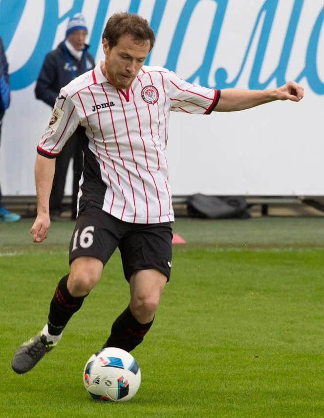 Syarhey Balanovich playing for FC Amkar Perm against FC Dynamo Moscow on 29 April 2016.